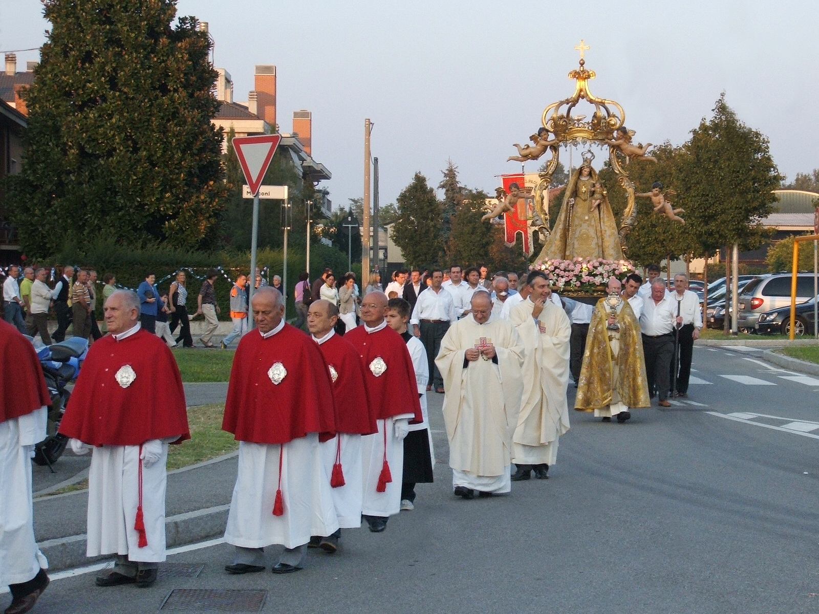 Azzano San Paolo, Bergamo, Lombardy, Italy - procession on the Feast of the Holy Rosary